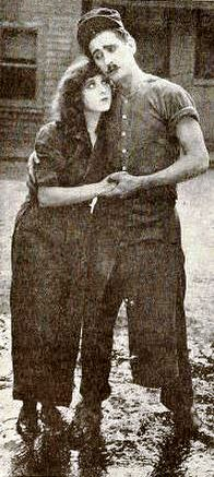 Still from the American comedy short film The White Blacksmith (1922) with Jobyna Ralston and James Parrott, on page 248 of the December 30, 1922 Exhibitor's Trade Review.